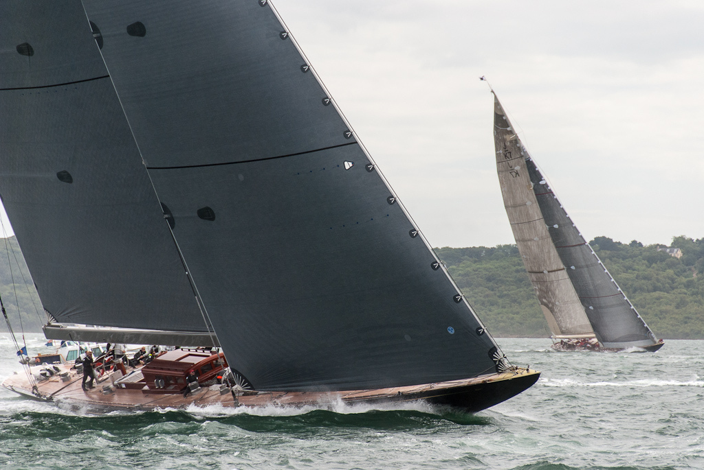 J-Class yachts Rainbow (foreground) and Velsheda under sail